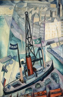 Isaac Grünewald (1889-1946), Lyftkranen (1915), publicity image